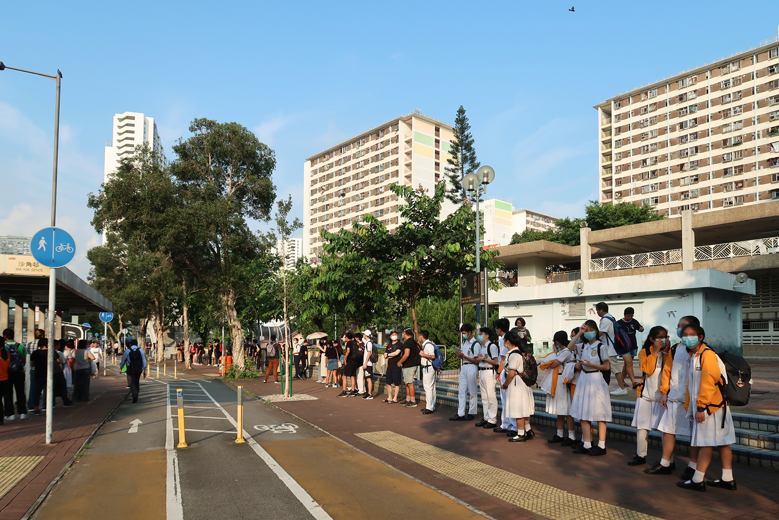 Shatin Wai students form human chain